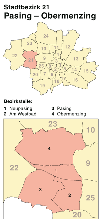 Boroughs of Munich map series